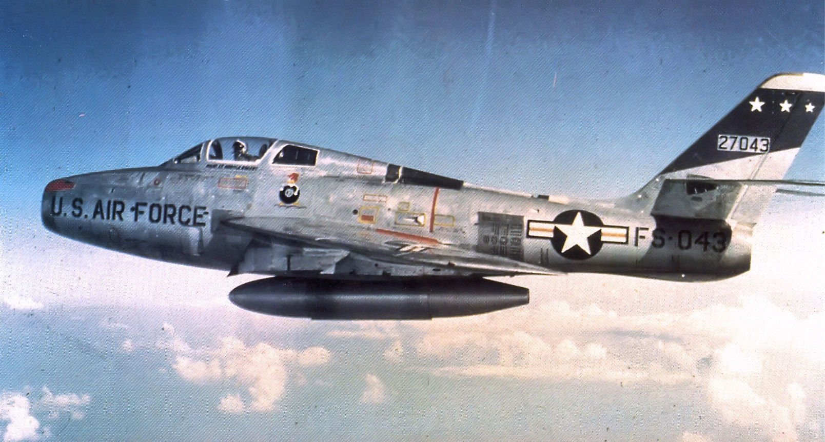 405th Fighter-Bomber Wing Republic F-84F-35-RE Thunderstreak 52-7043, Langley AFB, Virginia, 1955